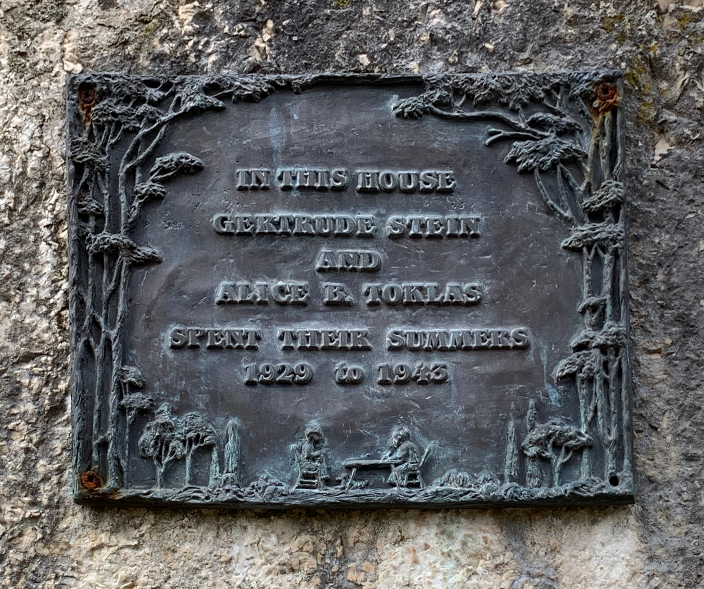 Gertrude Stein's house (Billignin). recto in engraving: In this house Gertrude Stein and Alice B. Tokias spent their summers 1929 to 1943